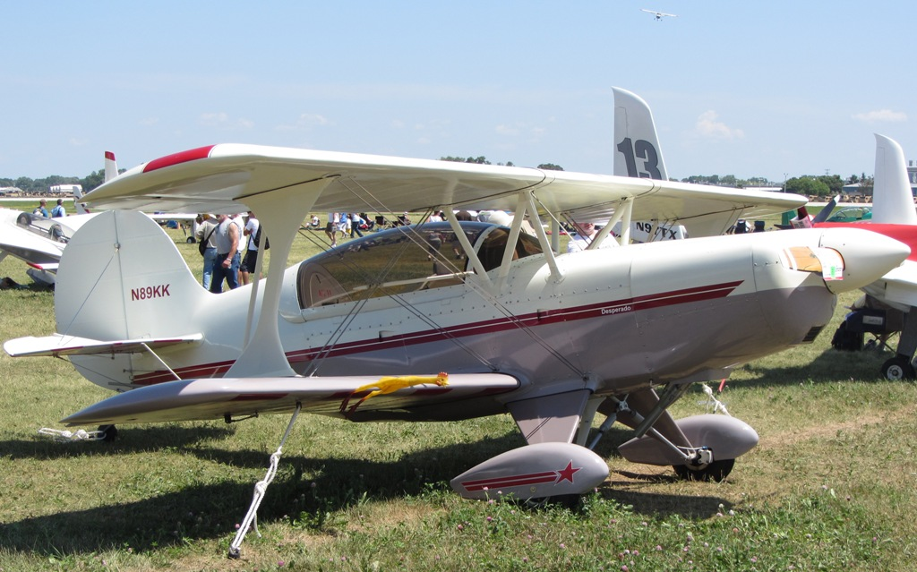 Acro Sport II, built 2007